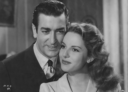 Hoy canto para ti - film Argentino